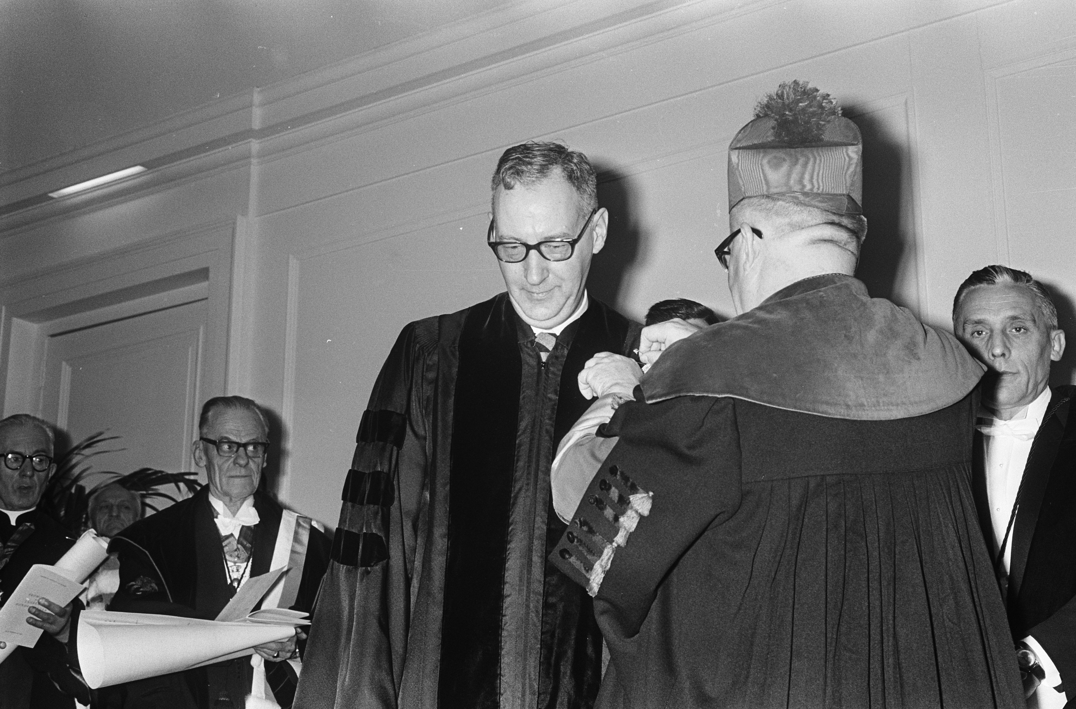 Tjalling Koopmans receiving an honorary doctorate from Albert Descamps, rector of Catholic Universiyt Leuven. Left: Atoine Braun and W.A. Visser 't Hooft; right: probably Pieter de Somer. Leuven, 2 Febr. 1967